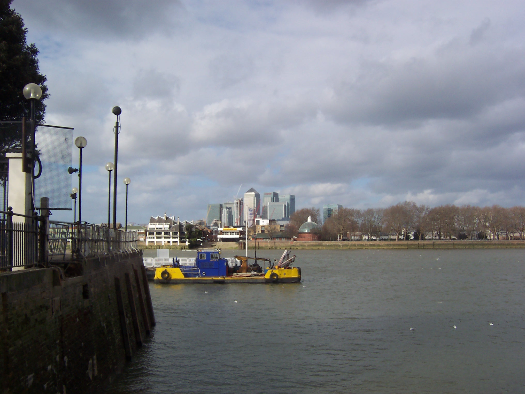 Canary Wharf from the lock gate of South Dock Marina near Greenland Pier.